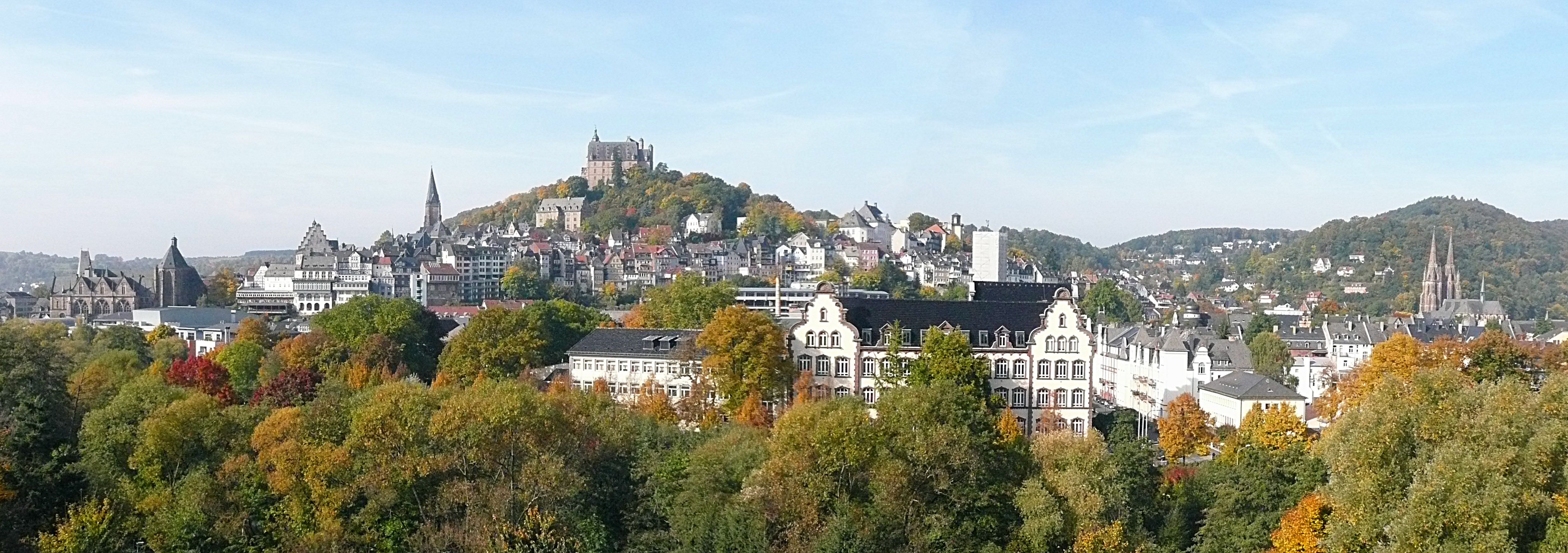 Marburg Oberstadt with city castle seen from east. From left to right: Old university, university church, town hall, Lutheran church, city castle, Elisabeth church. In the foreground: Martin Luther School (MLS).